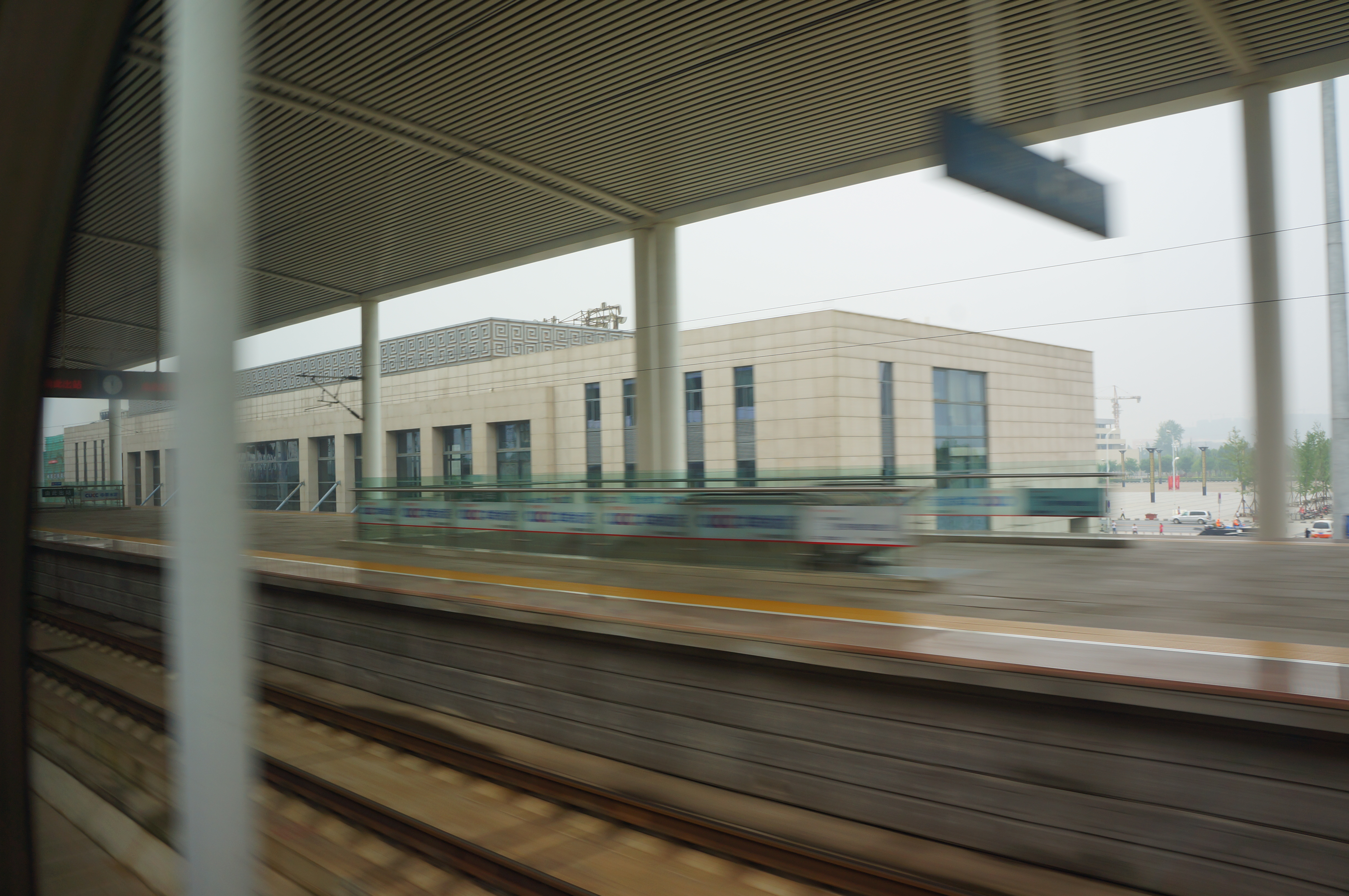 201606 Suzhoudong Station